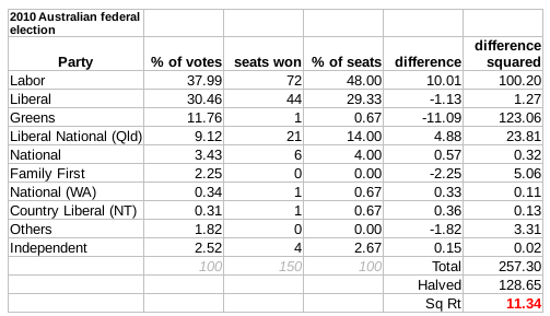 Gallagher Index for 2010 Australian Federal Election